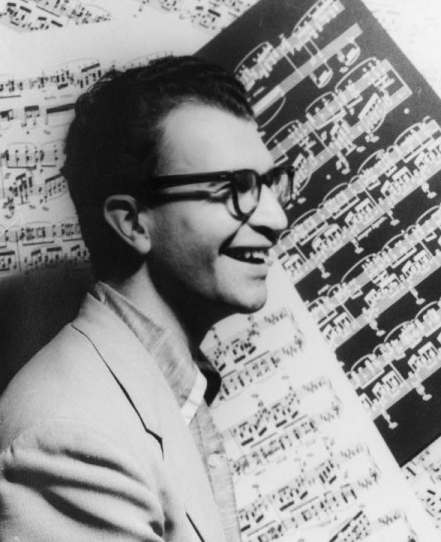 Title: Portrait of Dave Brubeck, with sheet music as backdrop Photographer: Van Vechten, Carl Date: October 8, 1954 Source: Library of Congress, Prints & Photographs Division, Carl Van Vechten Collection, LC-USZ62-103725. Rights and Restrictions Information